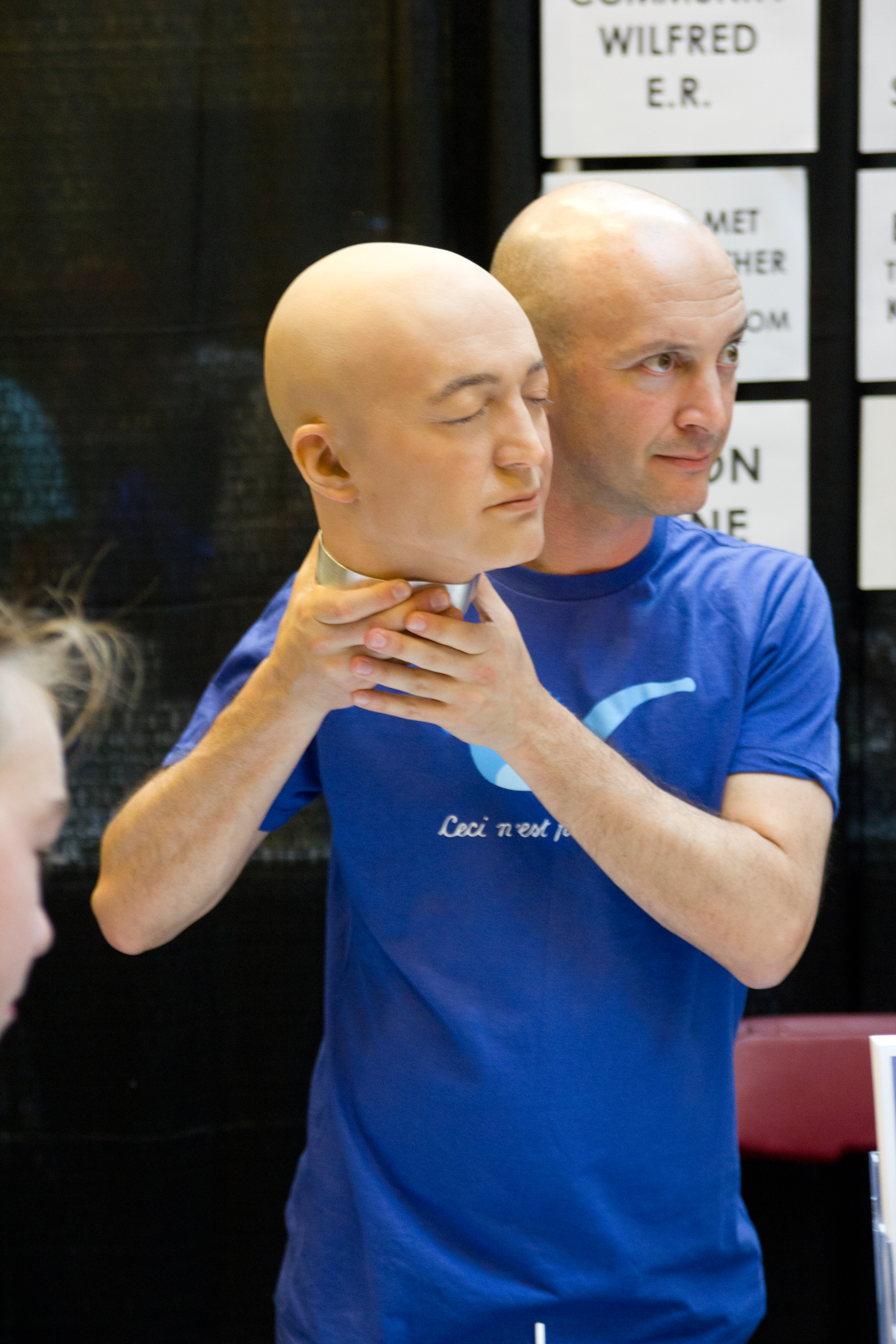 Actor JP Manoux at the 2012 FanExpo Canada